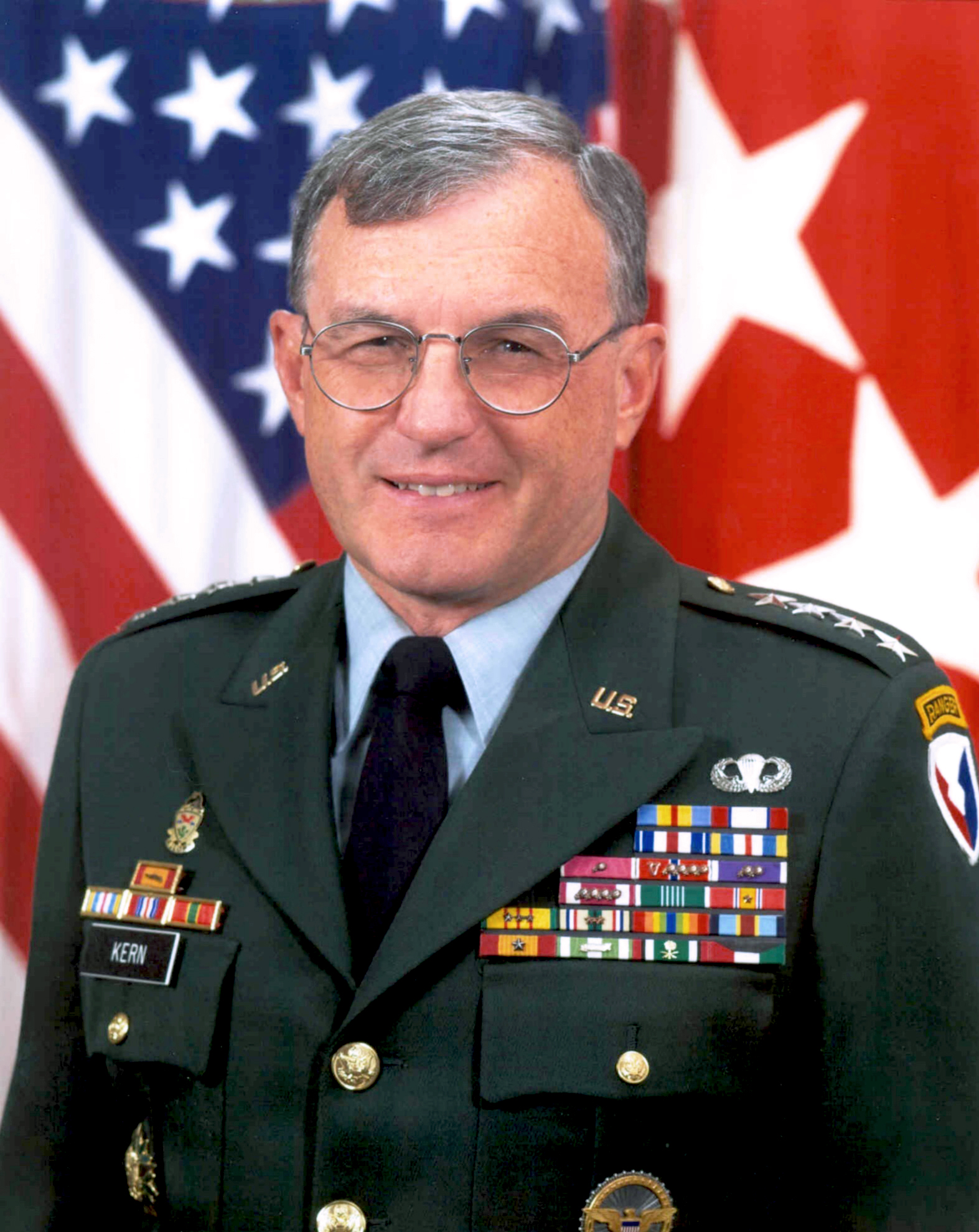 GEN Paul Kern, Commander, Army Material Command